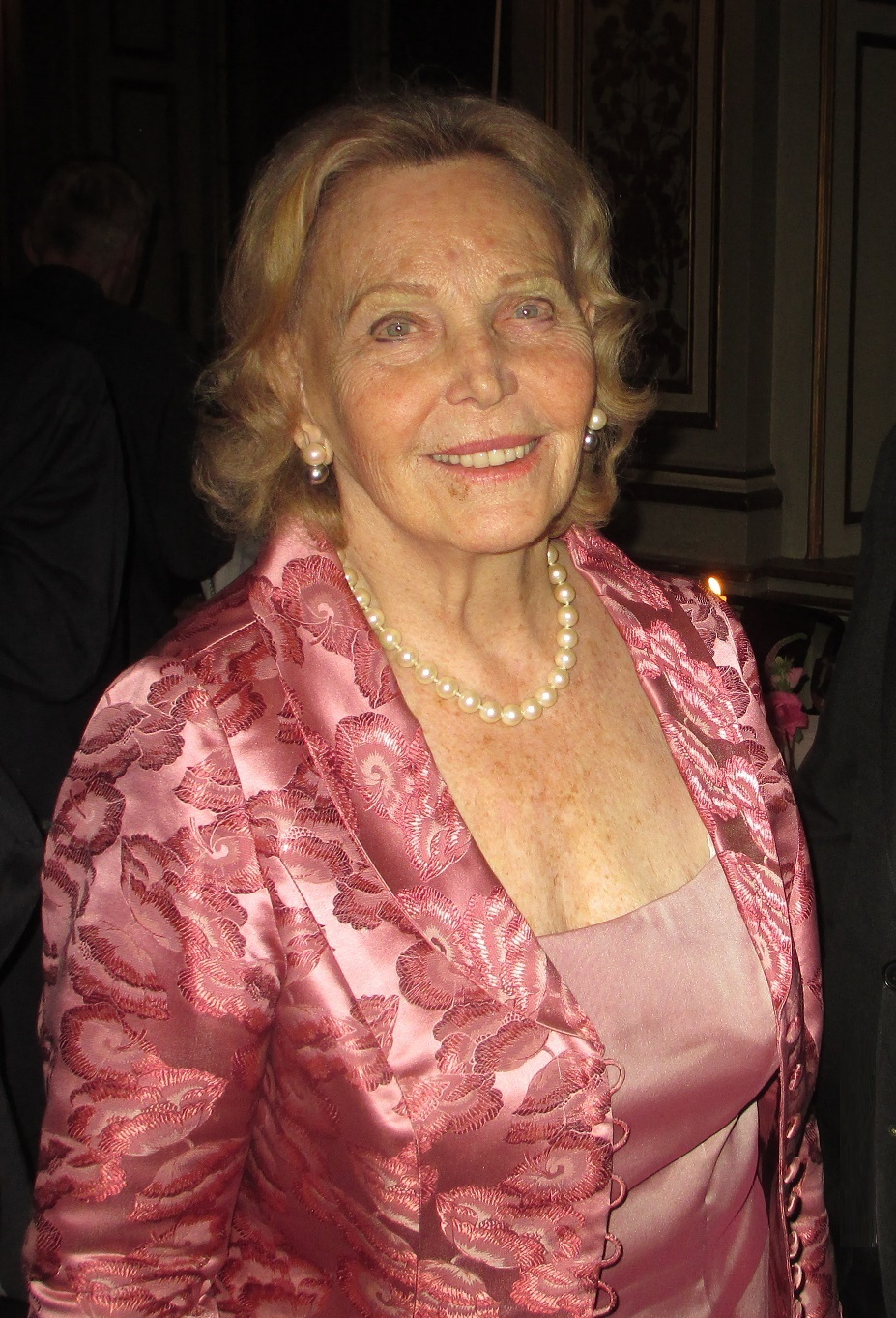 Princess Marianne Bernadotte, Countess of WisborgPlace: Sällskapet, Stockholm, Sweden